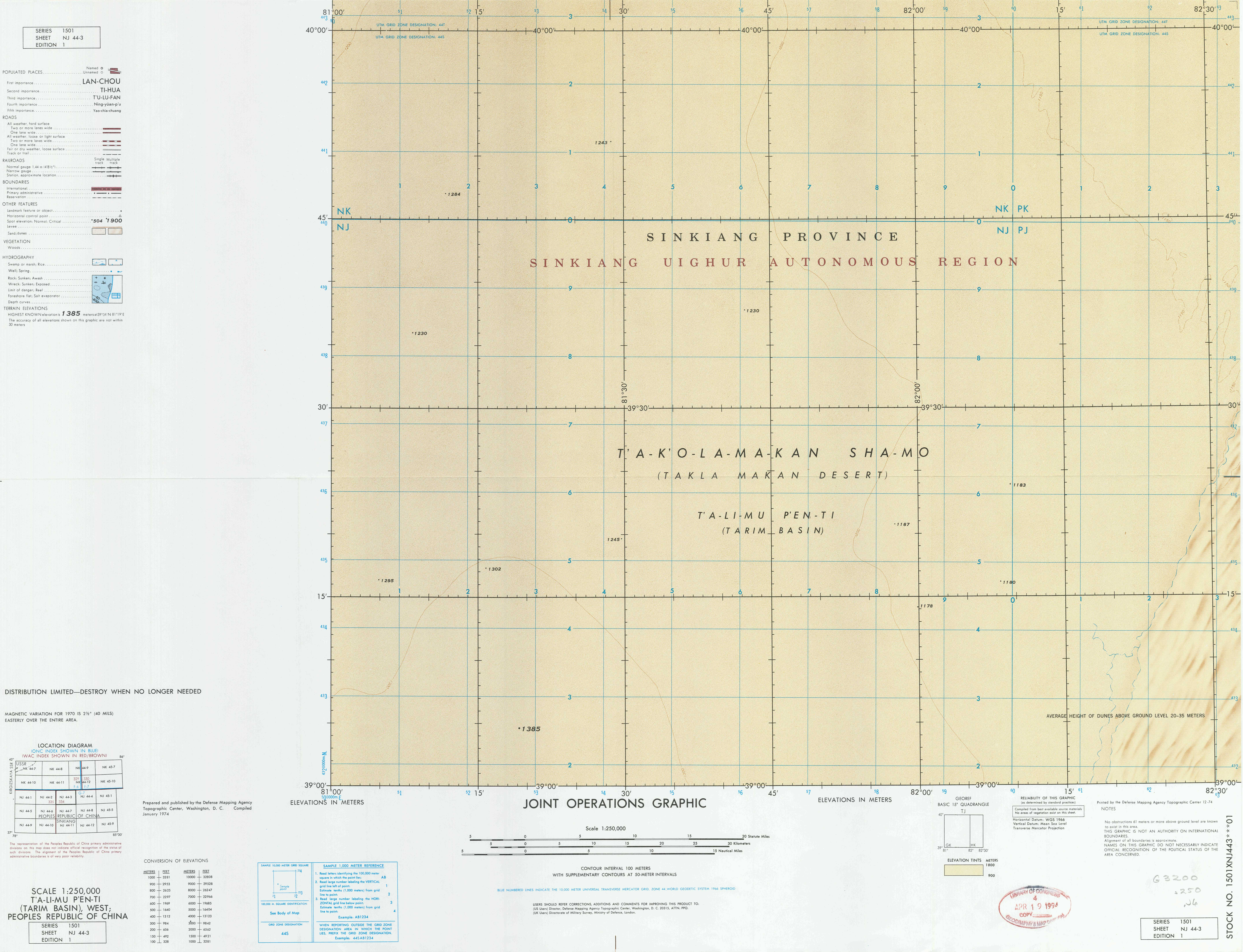 NJ-44-3 Takla Makan Desert